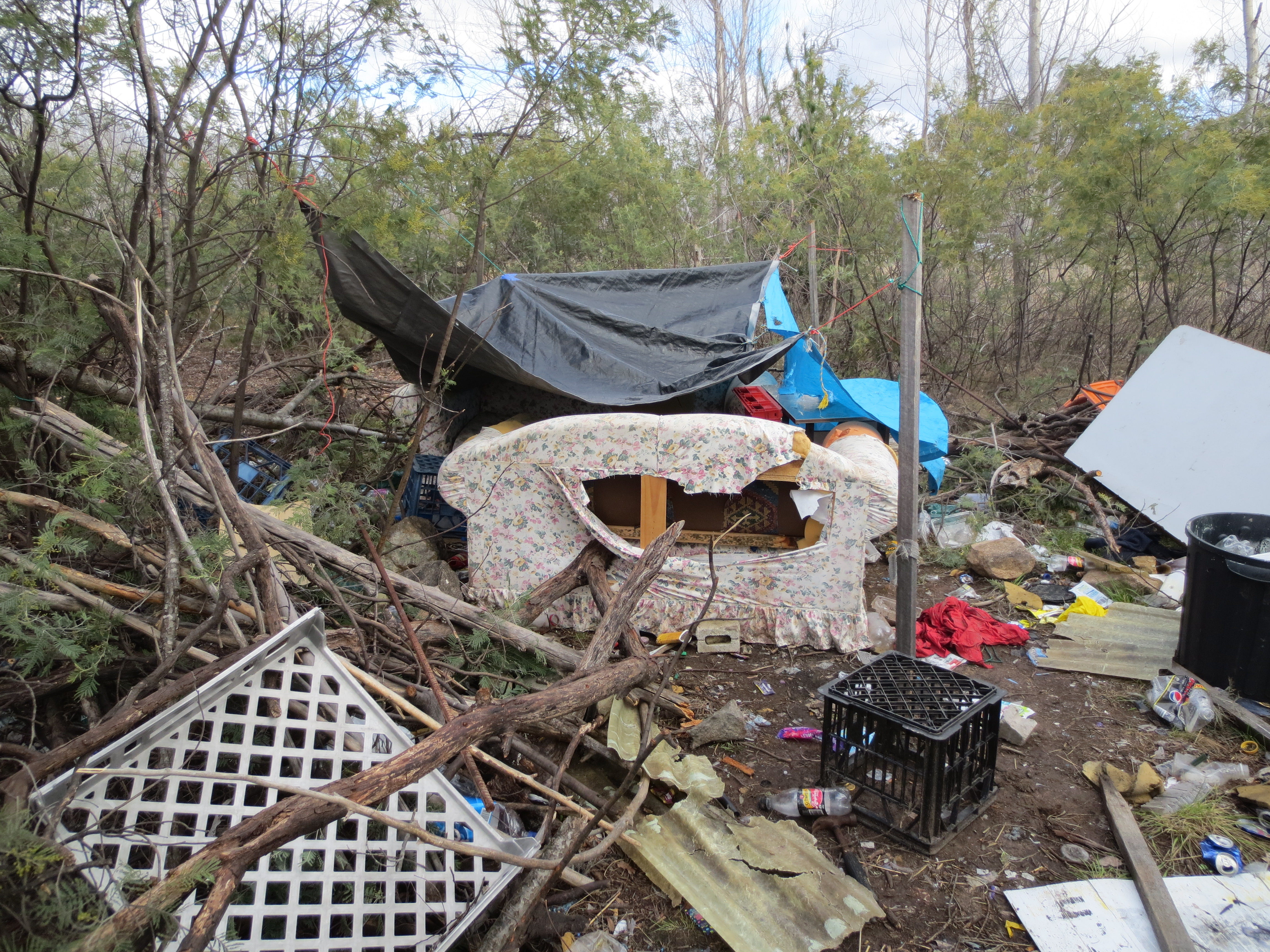 Makeshift homeless shelter abandoned plastic tarp for rain protection. Sofas for sleeping.